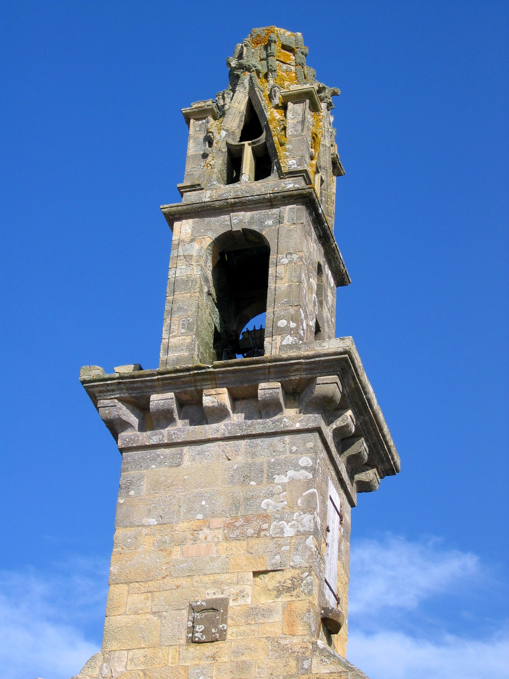 Steeple of the chapel Notre-Dame de Rocamadour, Camaret-sur-Mer